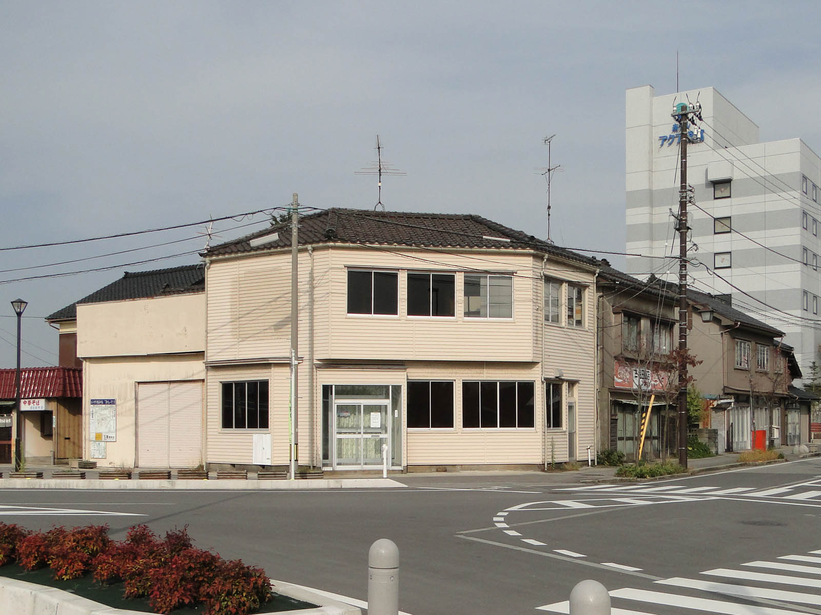 Former Nippon Express office in Kurobe, Toyama, Japan